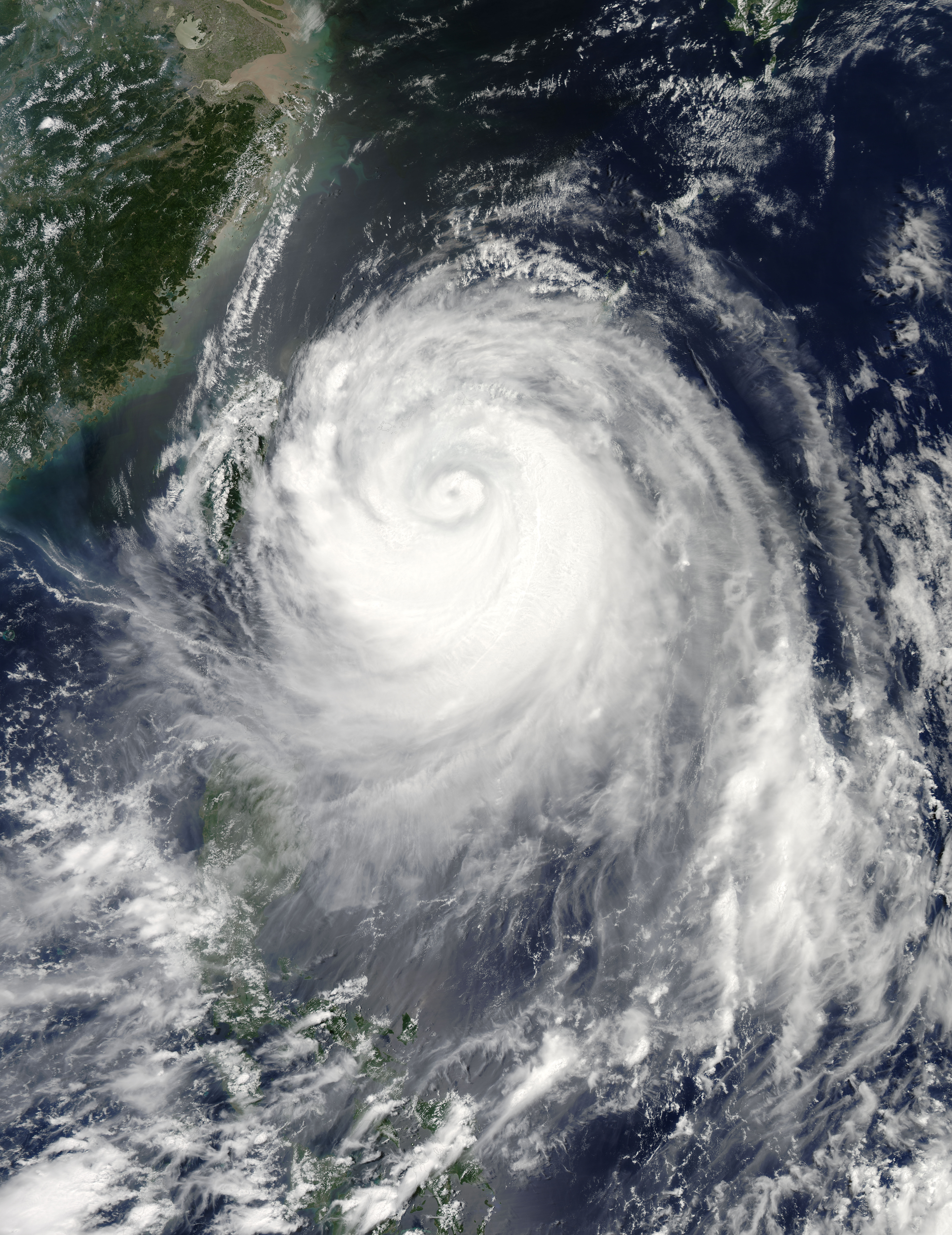 Typhoon Soulik (07W) approaching Taiwan on July 12, 2013